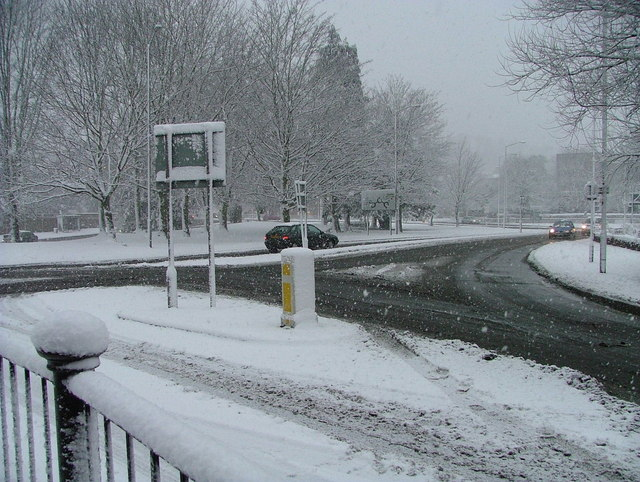 An unusually quiet rush hour at the A40/A404 junction